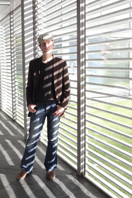 Portrait from Andreas Bohnenstengel